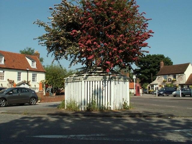 A strange road sign in Tolleshunt D'Arcy village This is quite an unusual road sign whereby the route directions have been placed around an octagonal cage that appears to protect the tree that's growing from inside.